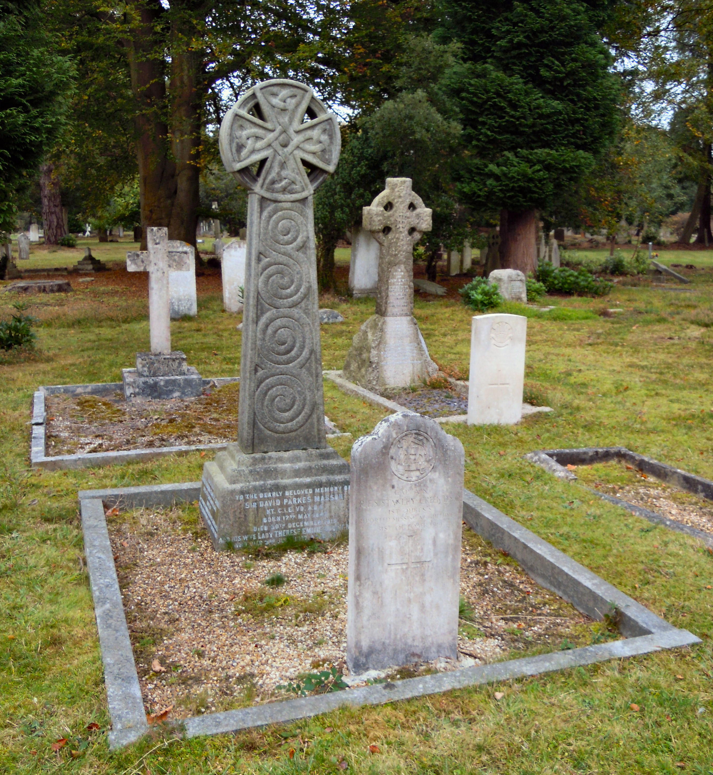 The grave of David Parkes Masson at Brookwood Cemetery